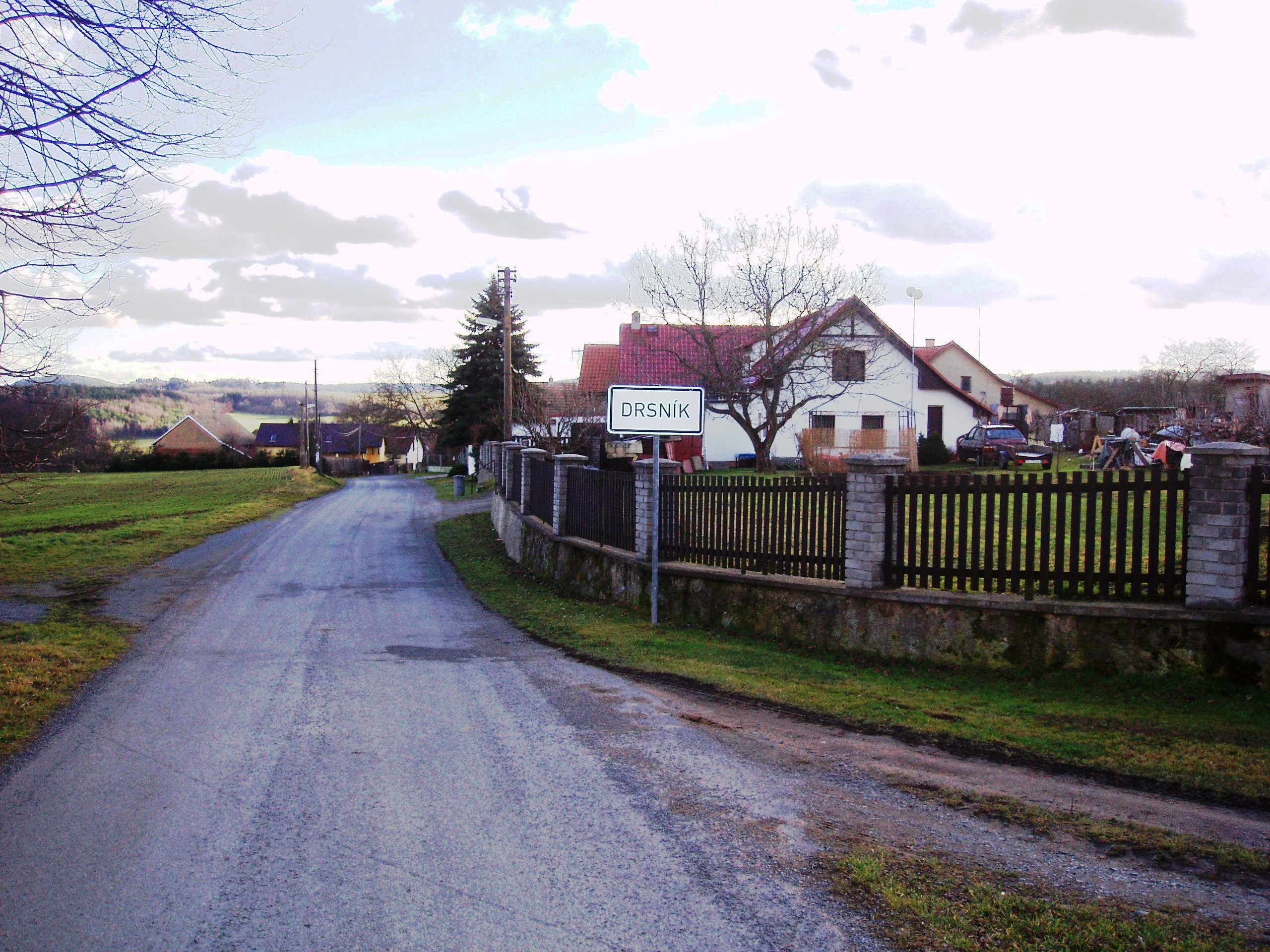 Drsník - celkový pohled